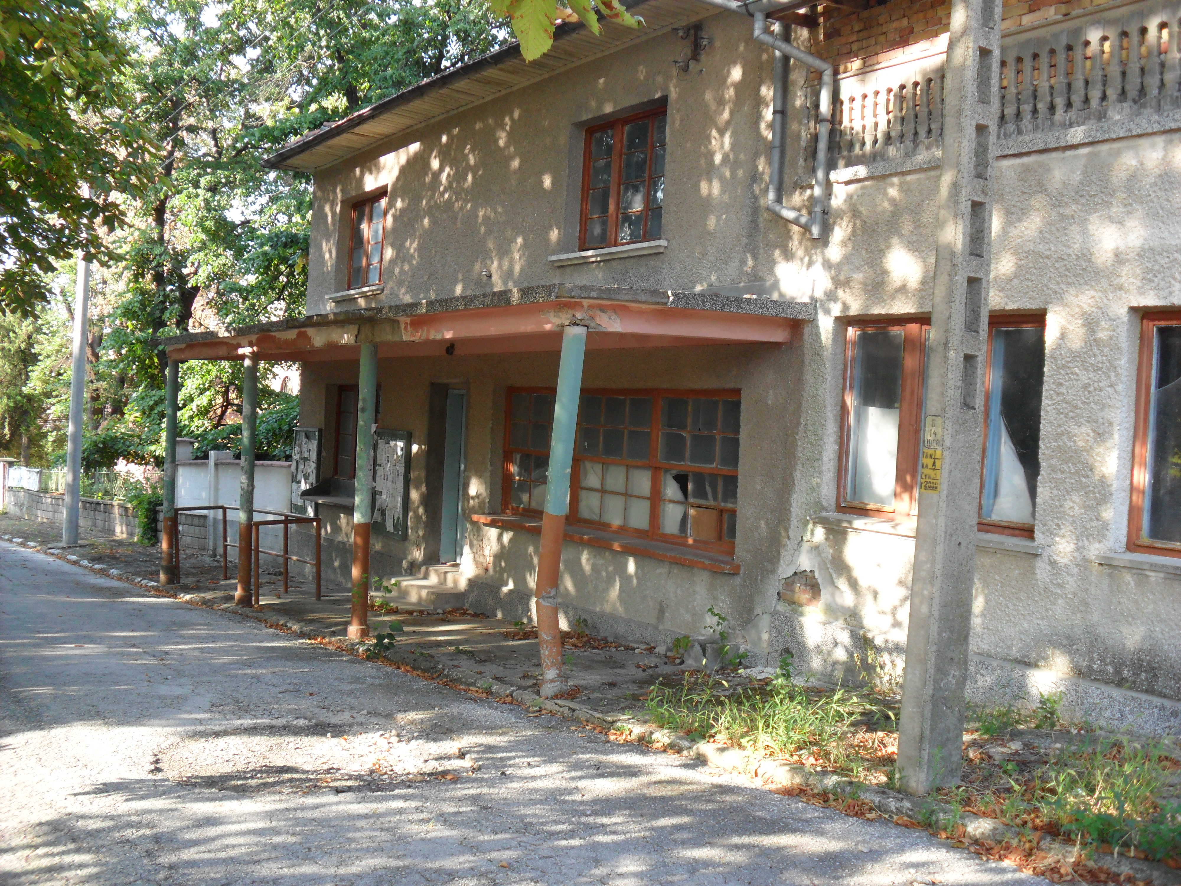 Vishovgrad baker shop